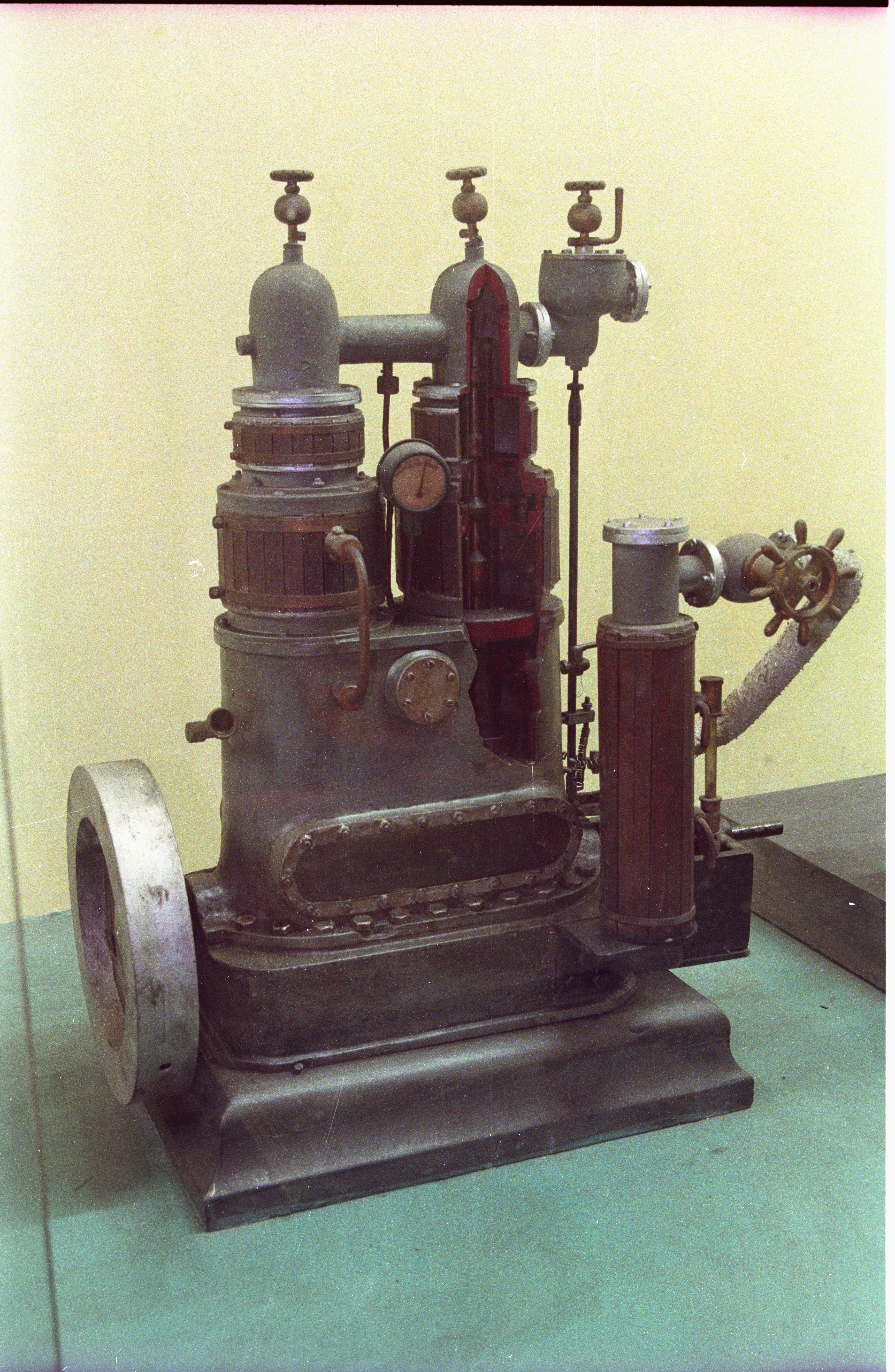 This photograph was taken at the Birla Industrial & Technological Museum (BITM), Kolkata, in the year 2000.